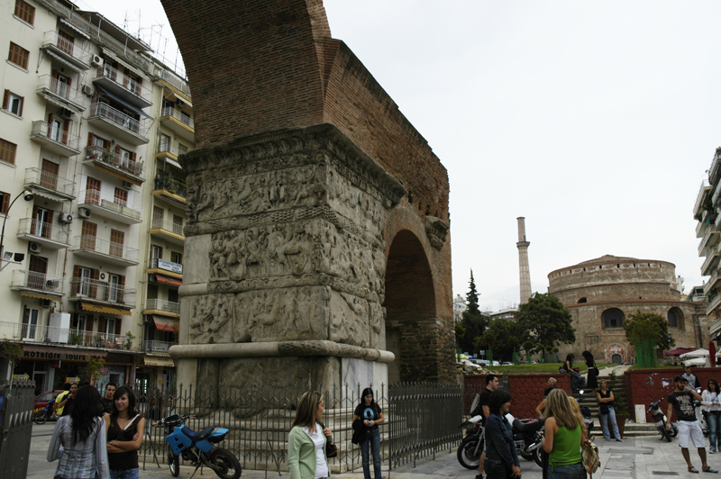 J. Matthew Harrington, pesonal digital image